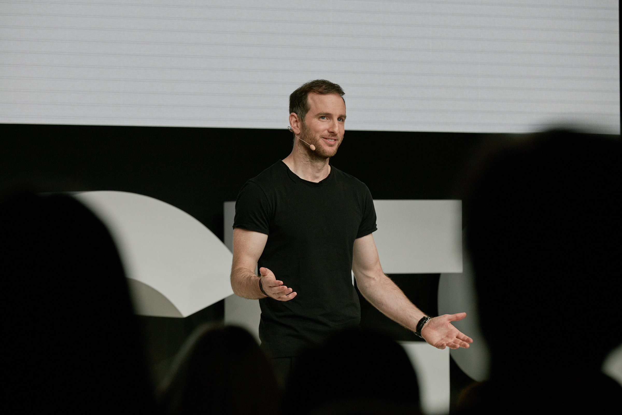 Joe Gebbia in 2017